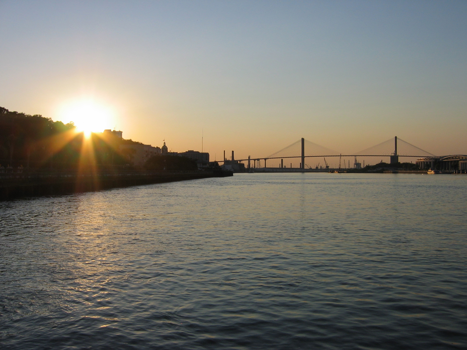 Savannah River and Eugene Talmadge Memorial Bridge (Savannah, Georgia).